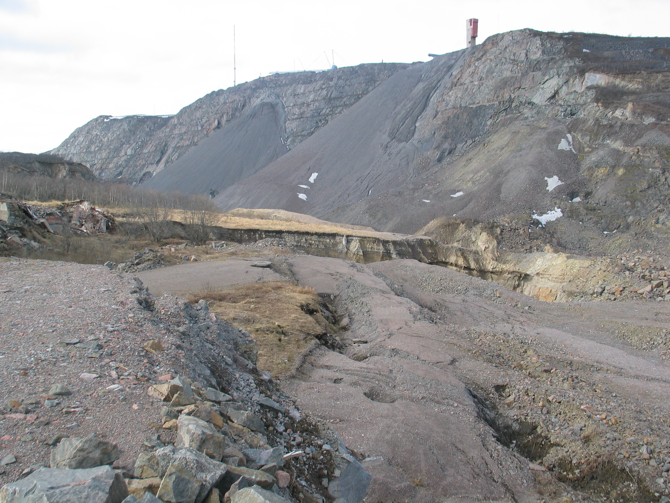 View towards ironmine Kiirunavaara and the open pit below.